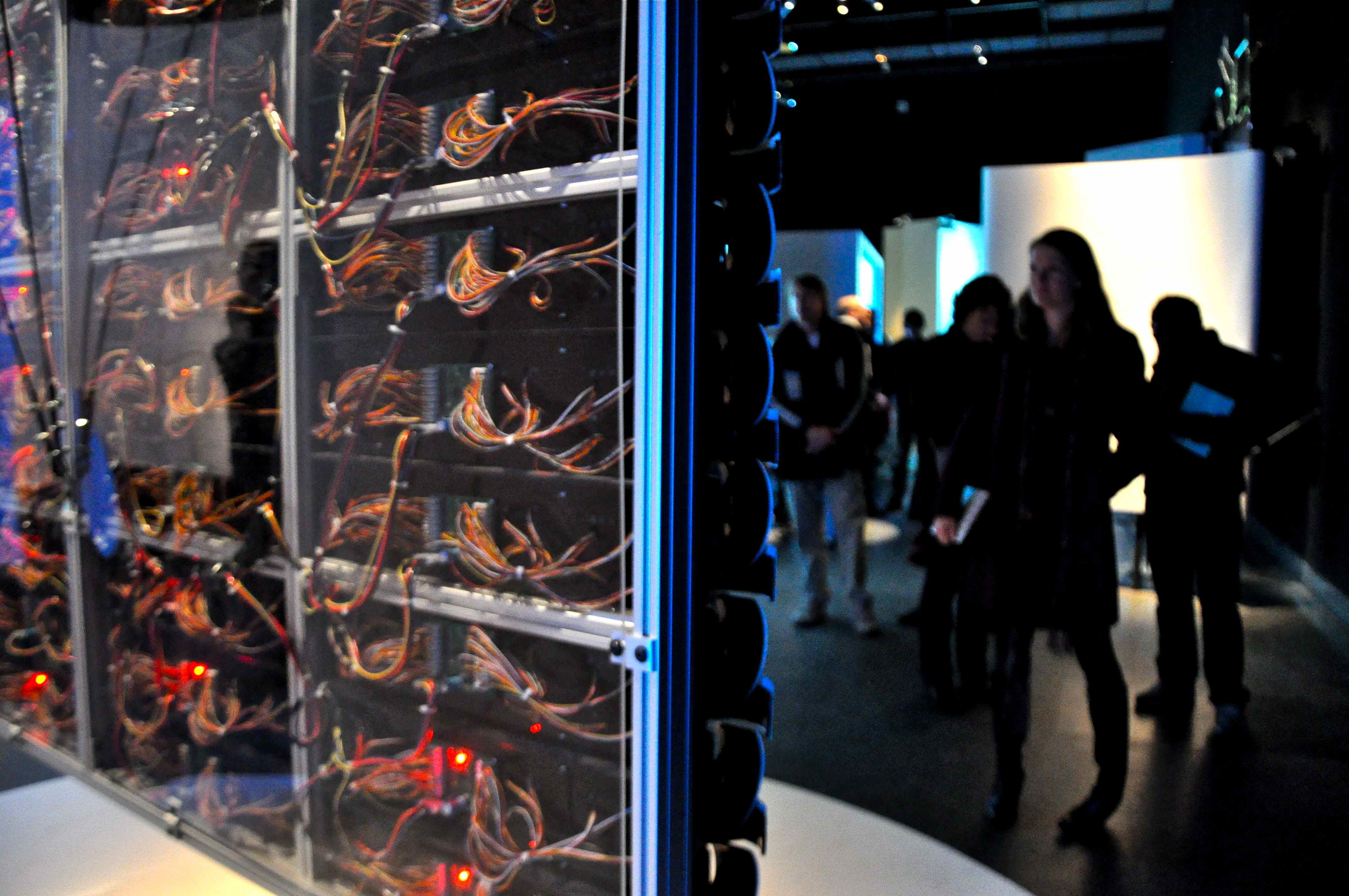 This exhibit had lots of pixels that were semi circles with the surface graduated from white to black... This is the back - it wasn't a simple little job... At the "decode" exhibition at the V&A